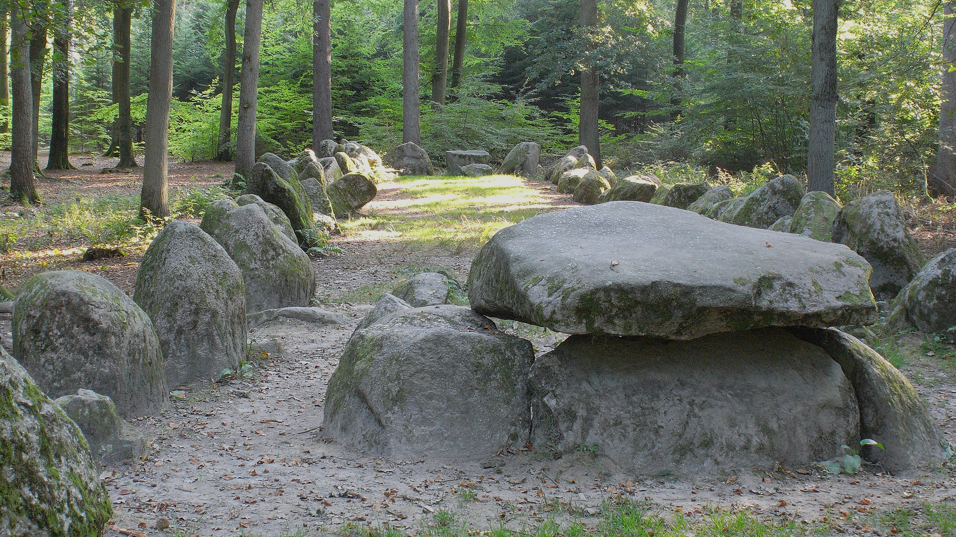 A famous long barrow in Lower Saxony